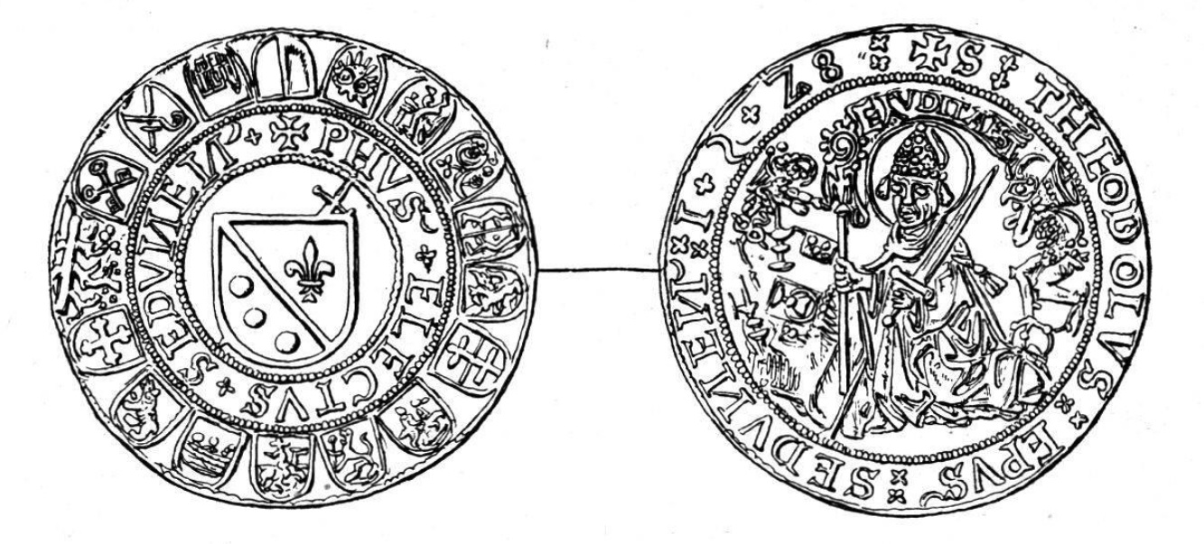 Thaler of the bishopric of Sion [Philippe de Platea], 1528. + PHVS' · ELECTVS · SEDVNEN' + + S : THEODOLVS : EPVS' : SEDVNEN' : 1 + 5 + 2 8 : c.f. F.J. Wesener, Die Gotthard Minus'sche Thaler- & Medaillensammlung (1874), no. 2608; Wöchentliche historische Münz-Belustigung 7 (1749), p. 49. The design of the coin is directly copied from the Thaler of Nicolaus Schiner (p. 285) and Matteo Schiner (p. 302) of 1498 and 1501, respectively. Philippe de Platea (c. 1470/5–1538) was vicarius of the diocese of Sion during 1520-1522, and in 1522 elected prince-bishop, but his election was contested by Rome and he was never consecrated as bishop, as he had been excommunicated for his opposition to Schiner in 1519. He resigned from office in 1529, taking up the office of sacristan of the cathedral chapter in 1532. Significantly, the legend on the obverse has electus where Schiner had episcopus, prefectus et comites, and the bishop's coat of arms shows only the sword, indicating temporal power, but is lacking the crozier. The de Platea coat of arms is shown as per bend, a fleur-de-lis and three roundels.